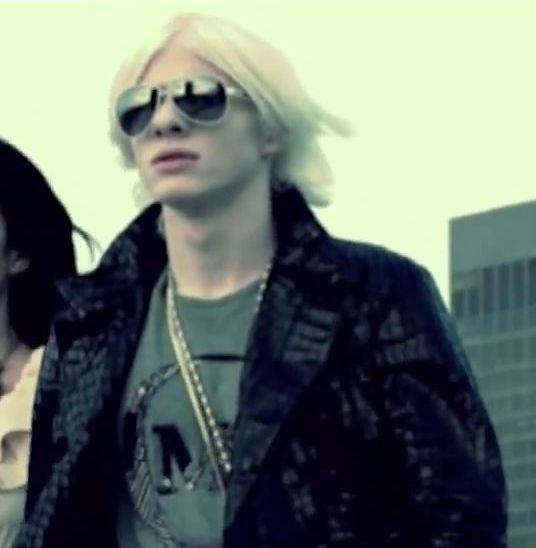 The Georgian hip-hop singer Bera Ivanishvili, a son of the ex-Prime Minister Bidzina Ivanishvili. A caption from a video posted at his official YouTube channel. Oct 21, 2013